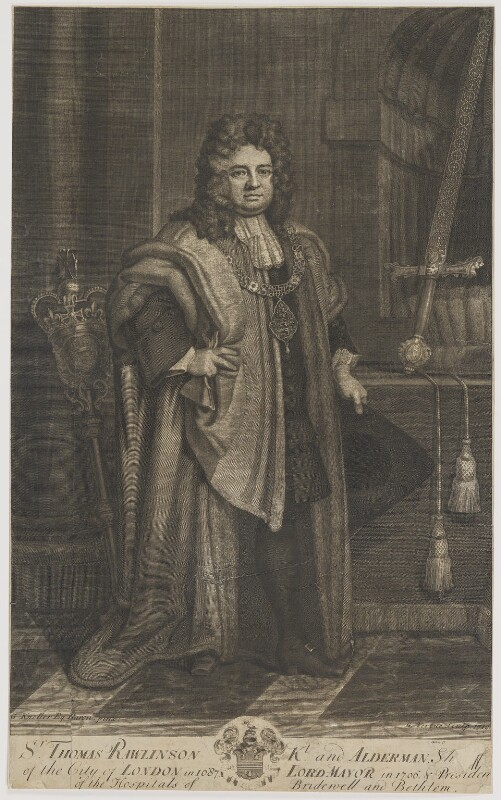 Portrait of Sir Thomas Rawlinson, English vintner and Lord Mayor of London in 1705.